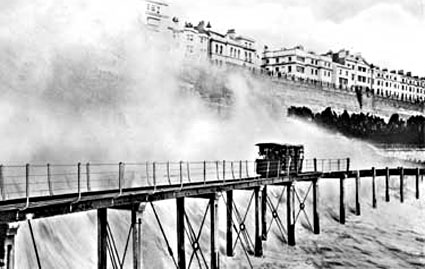 Volk's Railway in Brighton braves stormy seas as it runs along the wooden viaduct east of Banjo Grove in this old postcard view. Approx 1890